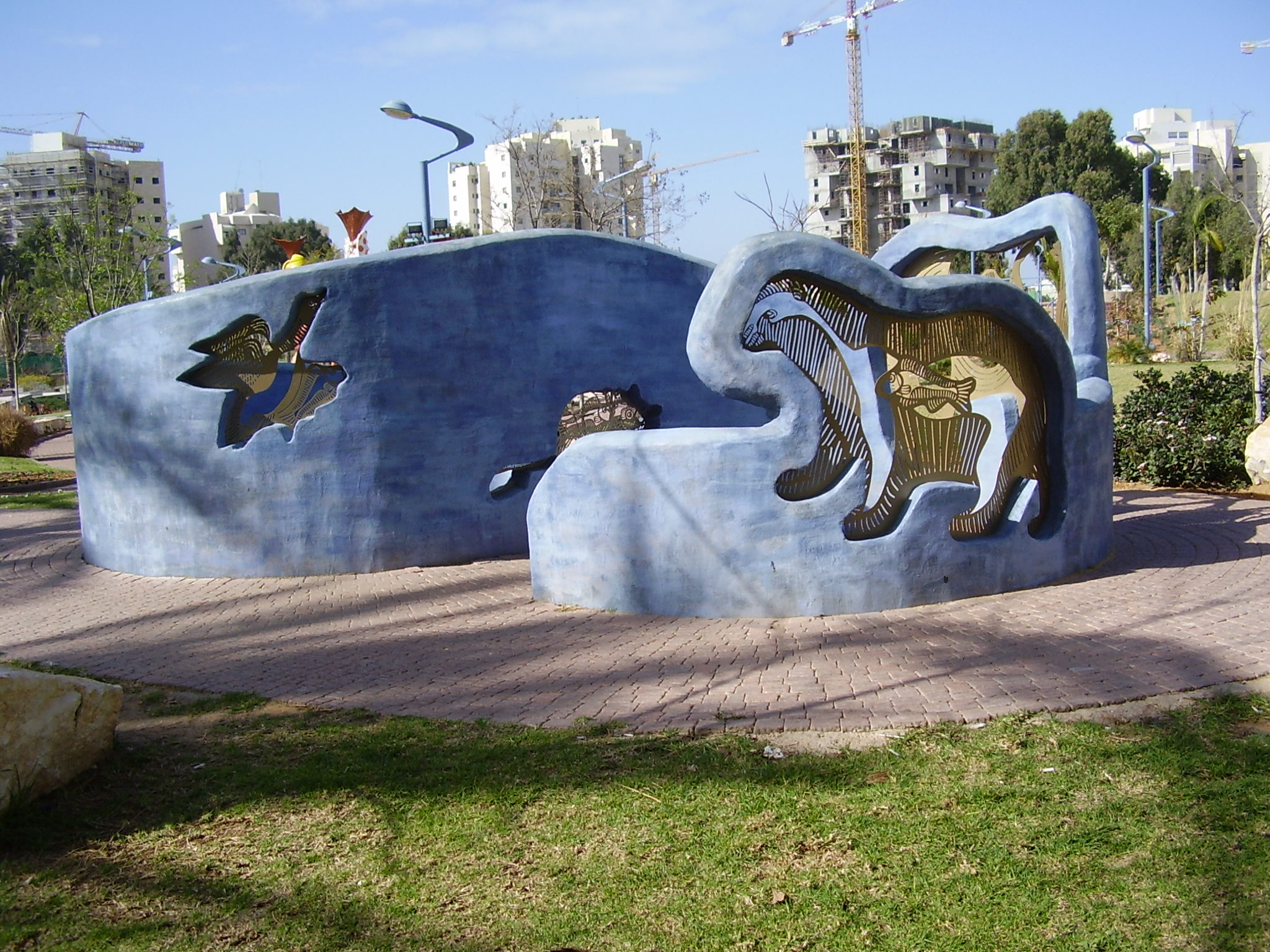 Story garden-The fish who didn't want to be a fish, in Holon